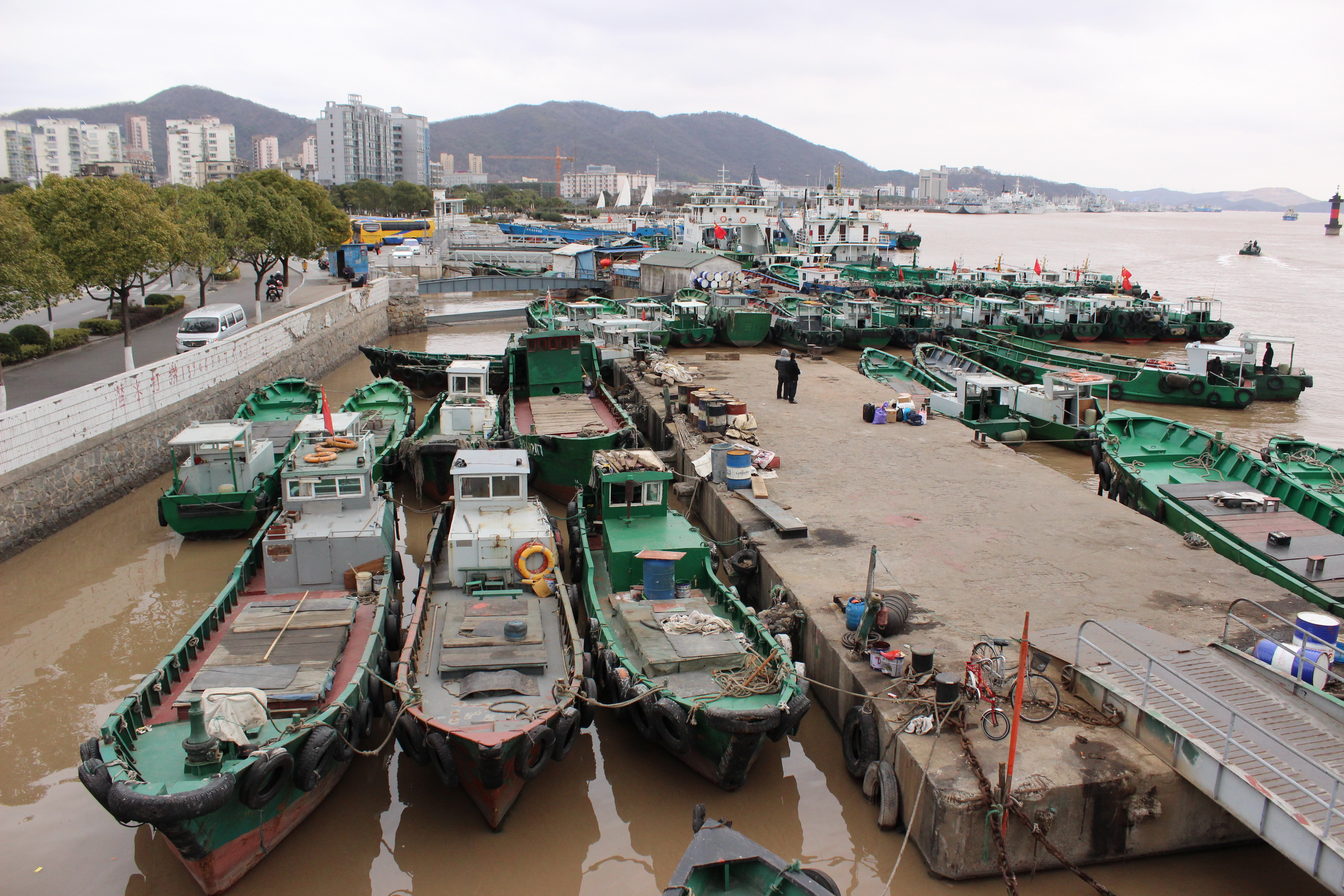 Fishing boats anchored in Dinghai Harbor